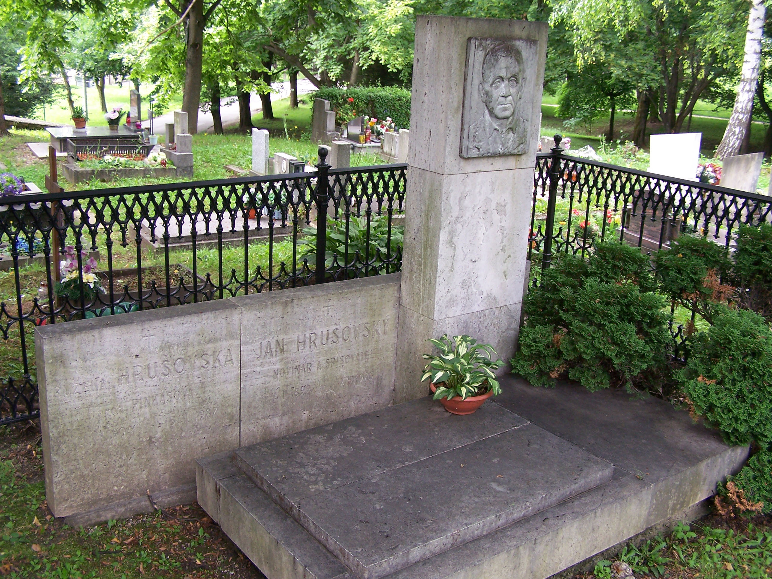 Grave of Ján Hrušovský at the National Cemetery in Martin, Slovakia